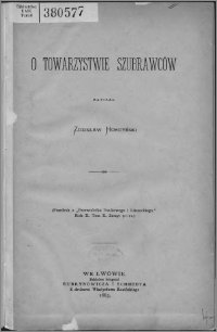 The book about Shubravcy